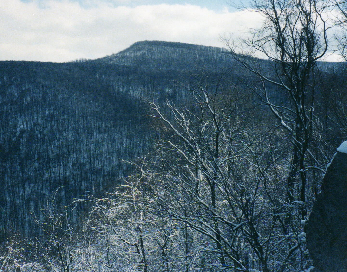 Sugarloaf Knob from Baughmans Rocks in winter.